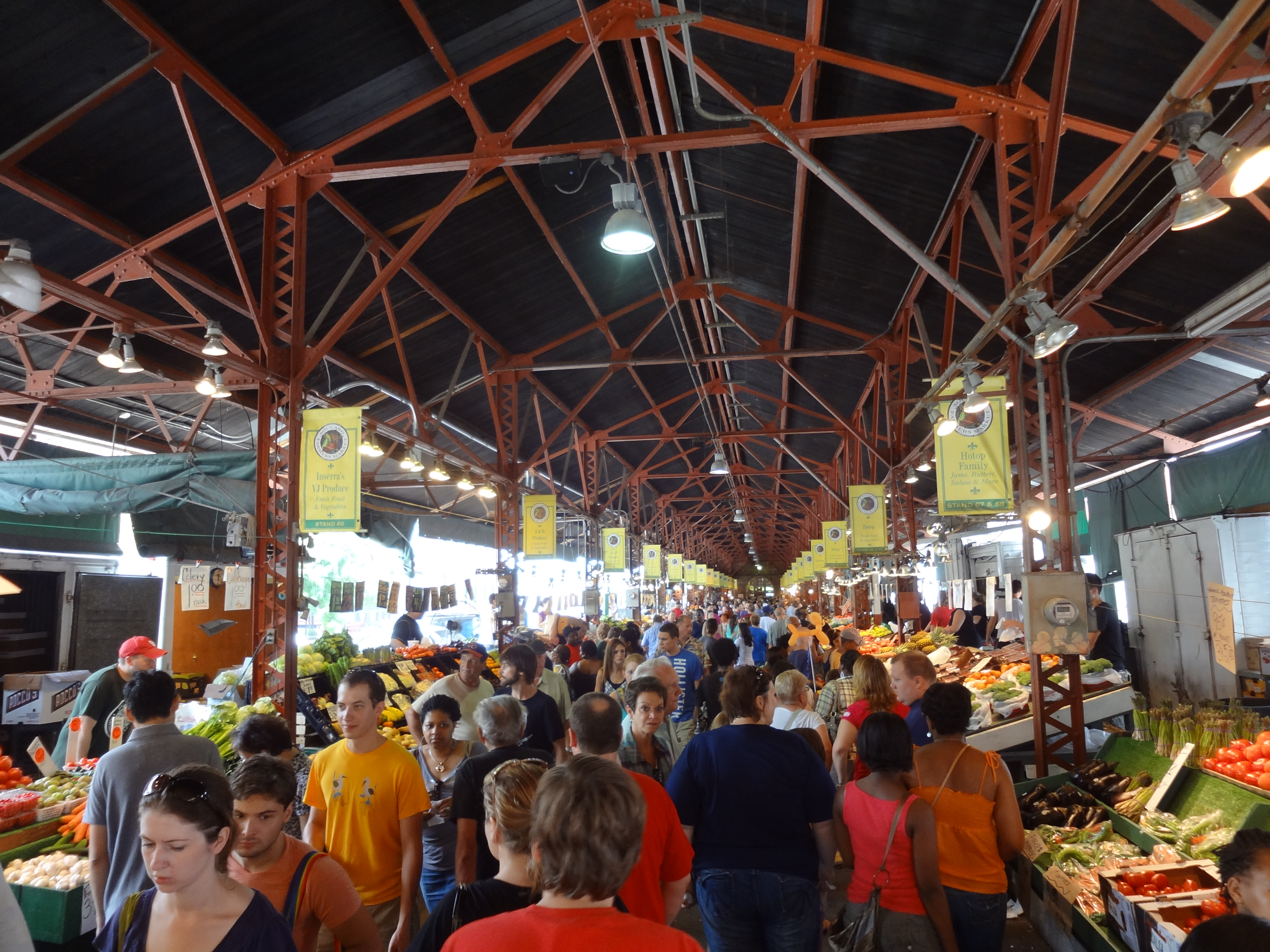 Busy Saturday Morning @ Soulard Market